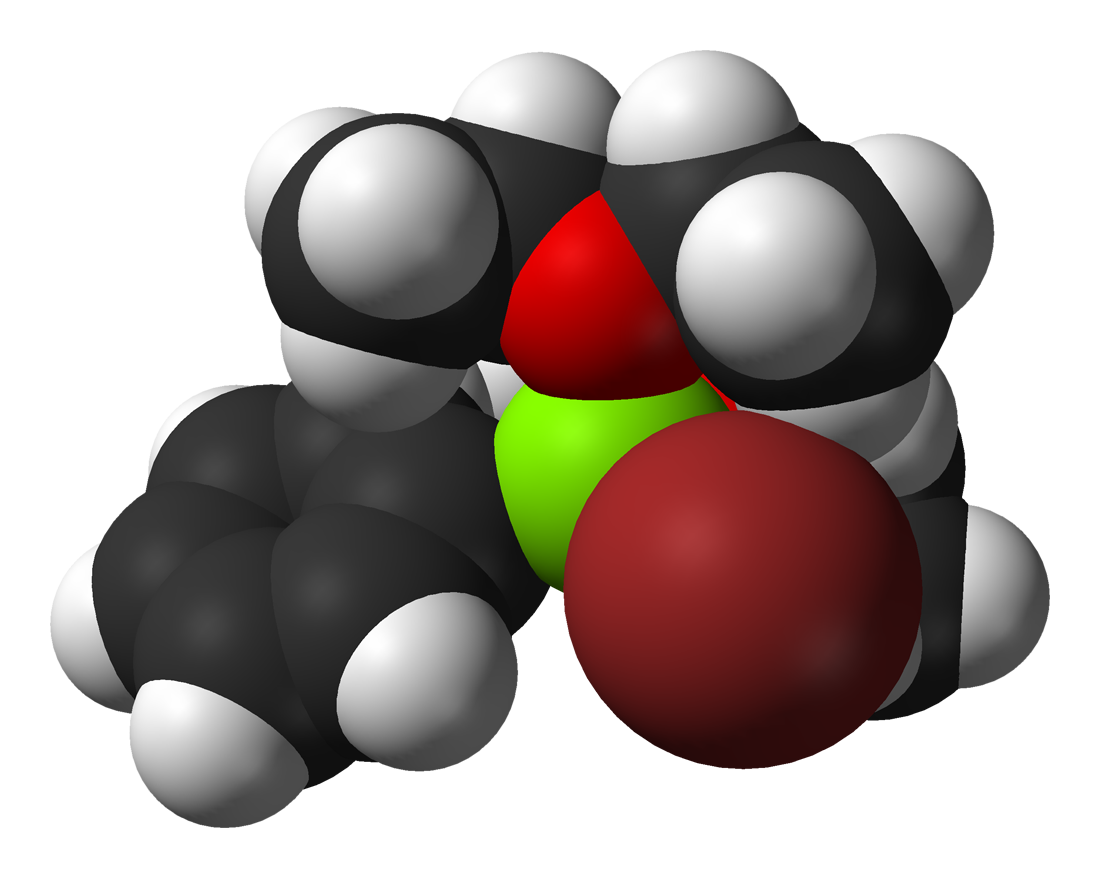 Space-filling model of the phenylmagnesium bromide dietherate complex, [PhMgBr(OEt2)2], as found in the crystal structure. X-ray crystallographic data from J. Am. Chem. Soc. (1964) 86, 4825-4830. The quality of data is quite poor for the carbon atom positions, particularly the ether carbons, so these have been estimated with molecular mechanics and should not be taken too literally. Model constructed in CrystalMaker 8.1. Image generated in Accelrys DS Visualizer.